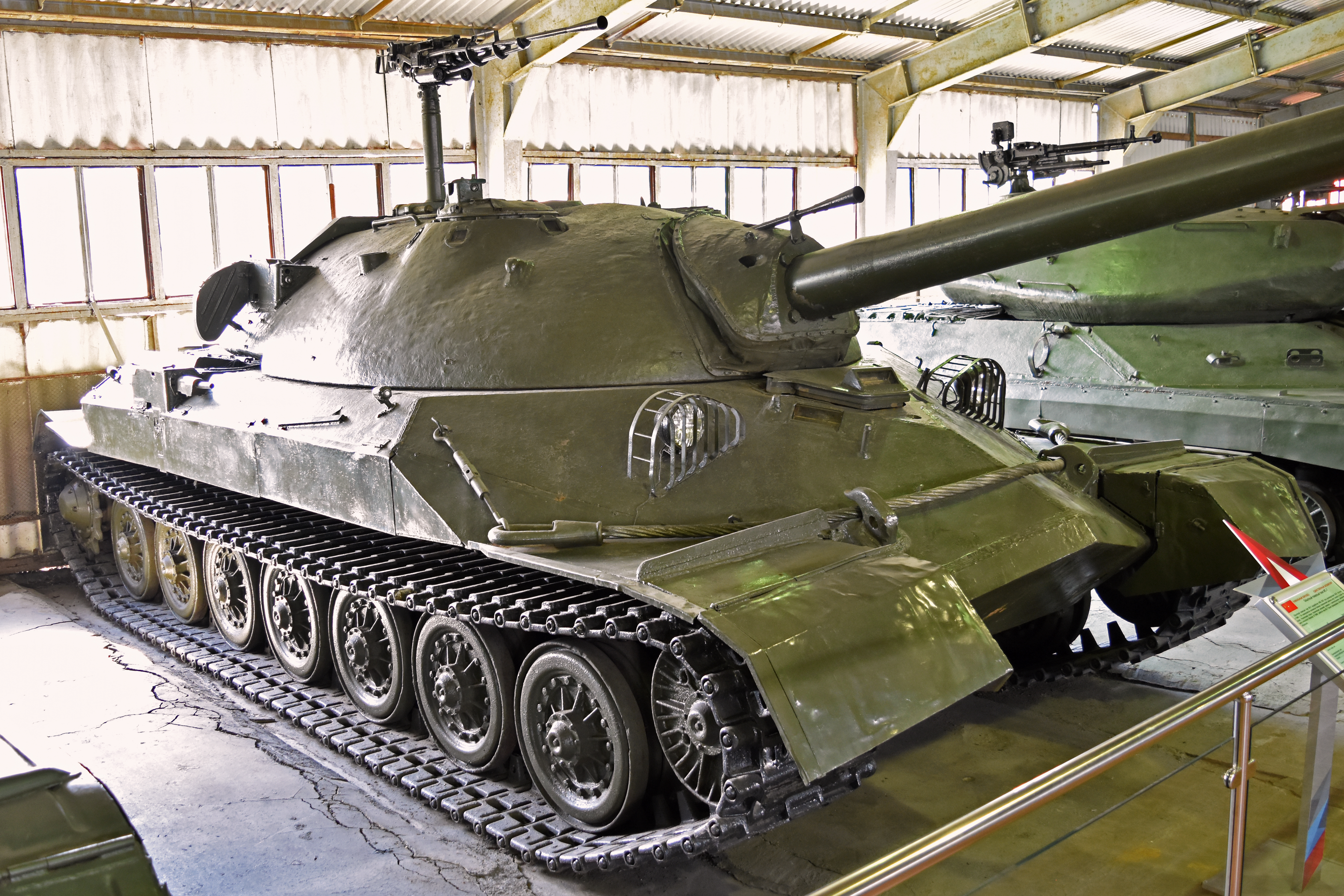 Designer:- Nikolai Shashmurin. Design No:- Object 260 Built:- 1948 Main armament:- 130mm gun (model S-70) which was developed from a naval gun. Developed in 1948 as the largest and heaviest of the ‘IS’ series of tanks, it was also the largest tank ever constructed in Russia. It never went into production and this is the only surviving example of the seven prototypes produced. On display in what is best known as Hall1 of the Kubinka Tank Museum, although its official title is now Pavilion 1 in Area 2 of the Park Patriot museum. Kubinka, Moscow Oblast, Russia. 24th August 2017.